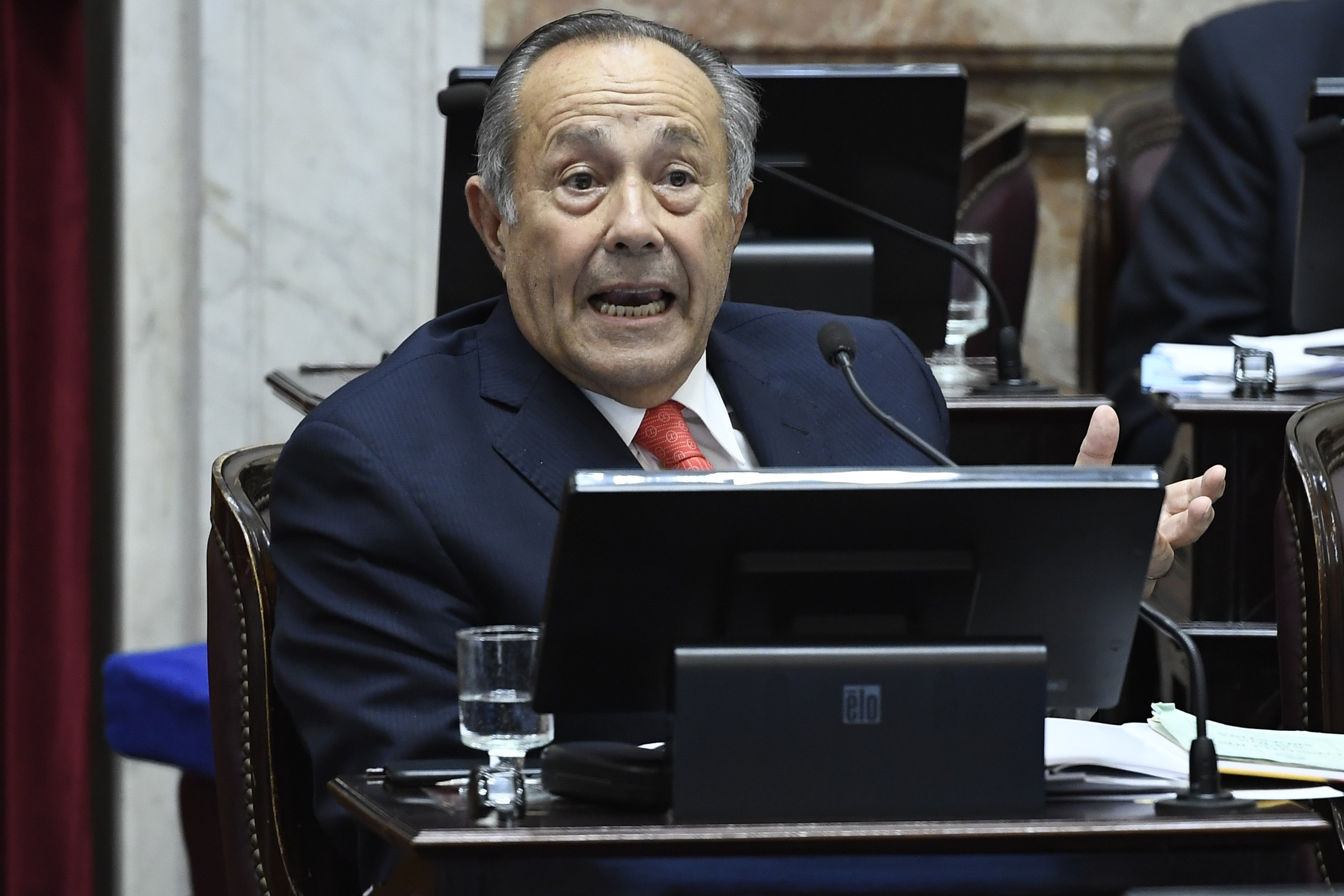 Sesión en el Senado de la Nación donde se debate el proyecto de ley de Interrupción Voluntaria del Embarazo, en Buenos Aires, Argentina, el 8 de agosto de 2018.